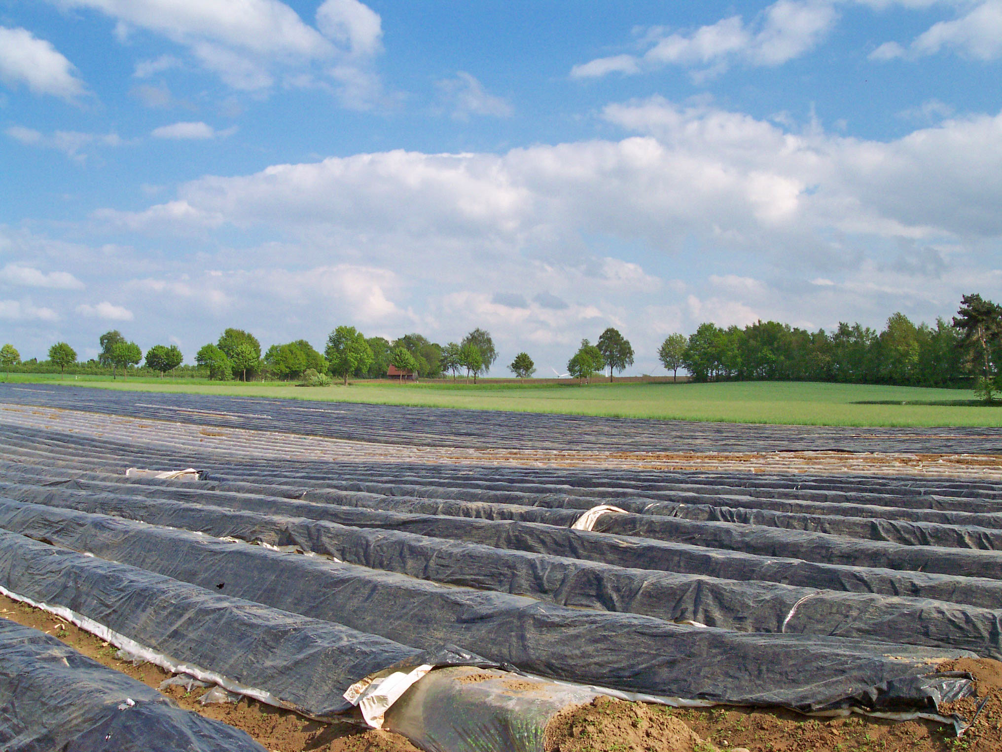 Field (asparagus) in Bliedersdorf